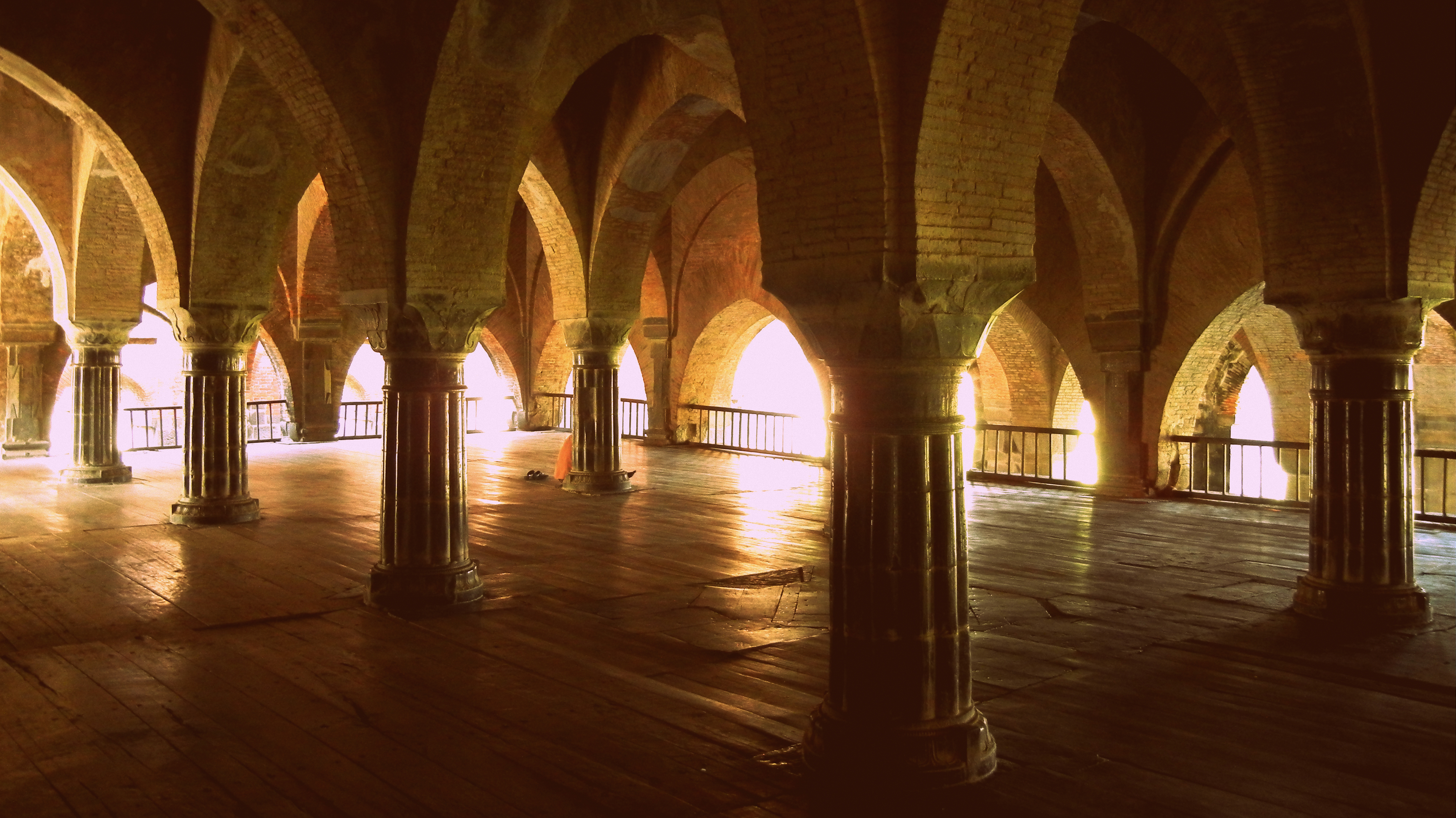 Adina Mosque